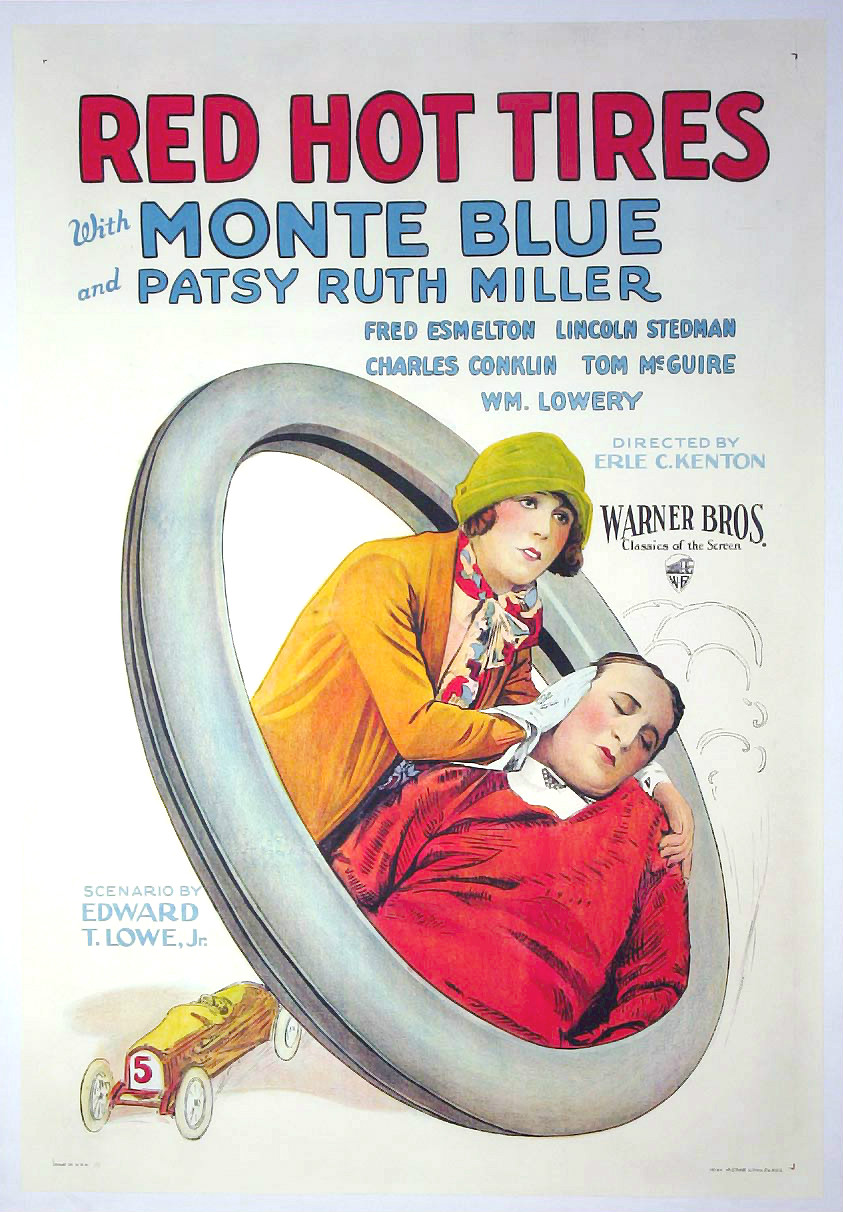 Poster for the 1925 film Red Hot Tires. There are no copyright marks as can be seen at the links. At bottom left is Made in USA. At bottom right is a number which probably pertains to the print job and ACME Litho Co.